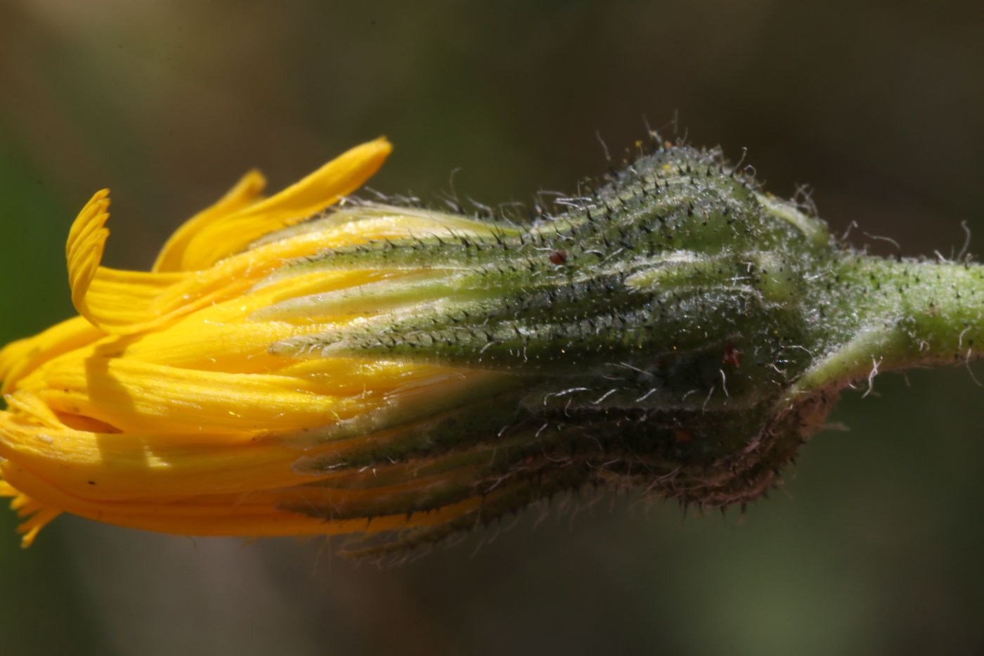 Detail of involucrum of Hieracium chlorocephalum, Mały Śnieżny Kocioł, Karkonocze, Poland